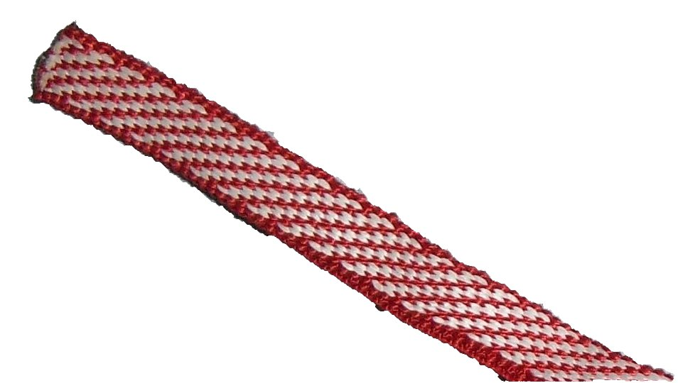 A sling made partially of a dyneema